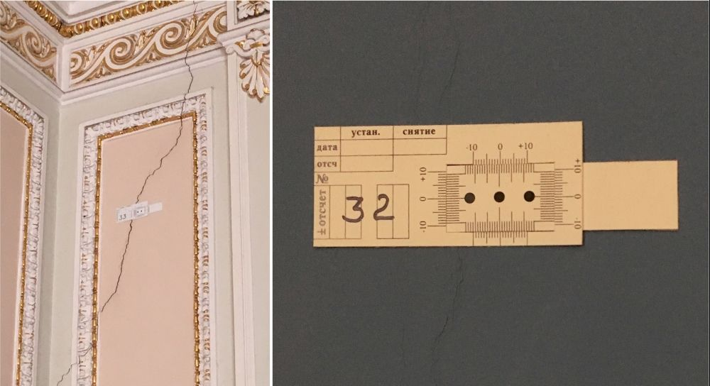 Mechanical displacement gauges with vernier scales on wall cracks (Moika Palace, Saint Petersburg). Labels include устан (installation, literally "inst"), снятие (removal), дата (date), отсч (countdown, literally "cntd"), and отсчёт (also countdown).